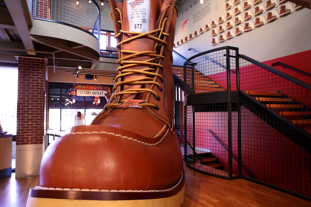 World's Largest Boot, on display at the Red Wing Shoe Store in Red Wing, Minnesota.